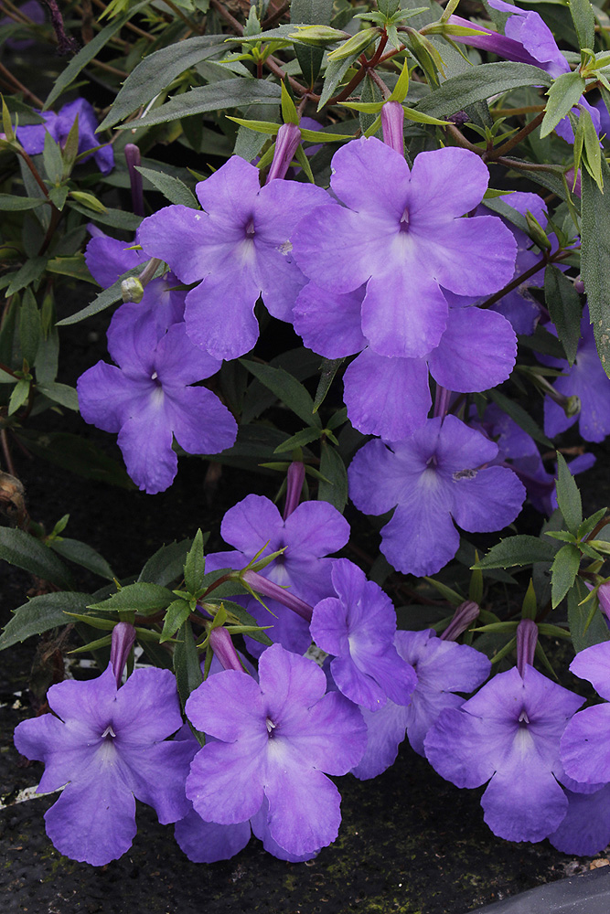 Achimenes cettoana, a species of rhizomatous, herbaceous, tender perennial plant